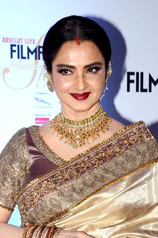 Rekha grace Filmfare Glamour & Style Awards 2016